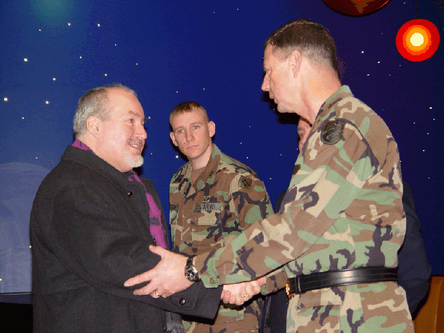 Among the several hundred guests in the receiving line was Mannheim Lord Mayor, Gerhard Widder, welcoming the new 5th Signal Commander, Brigadier General Carroll F. Pollett after the change of command ceremony on March 4 held at the BFV Sports Arena.